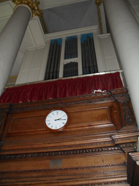 A quarter past two at St Benet Paul's Wharf